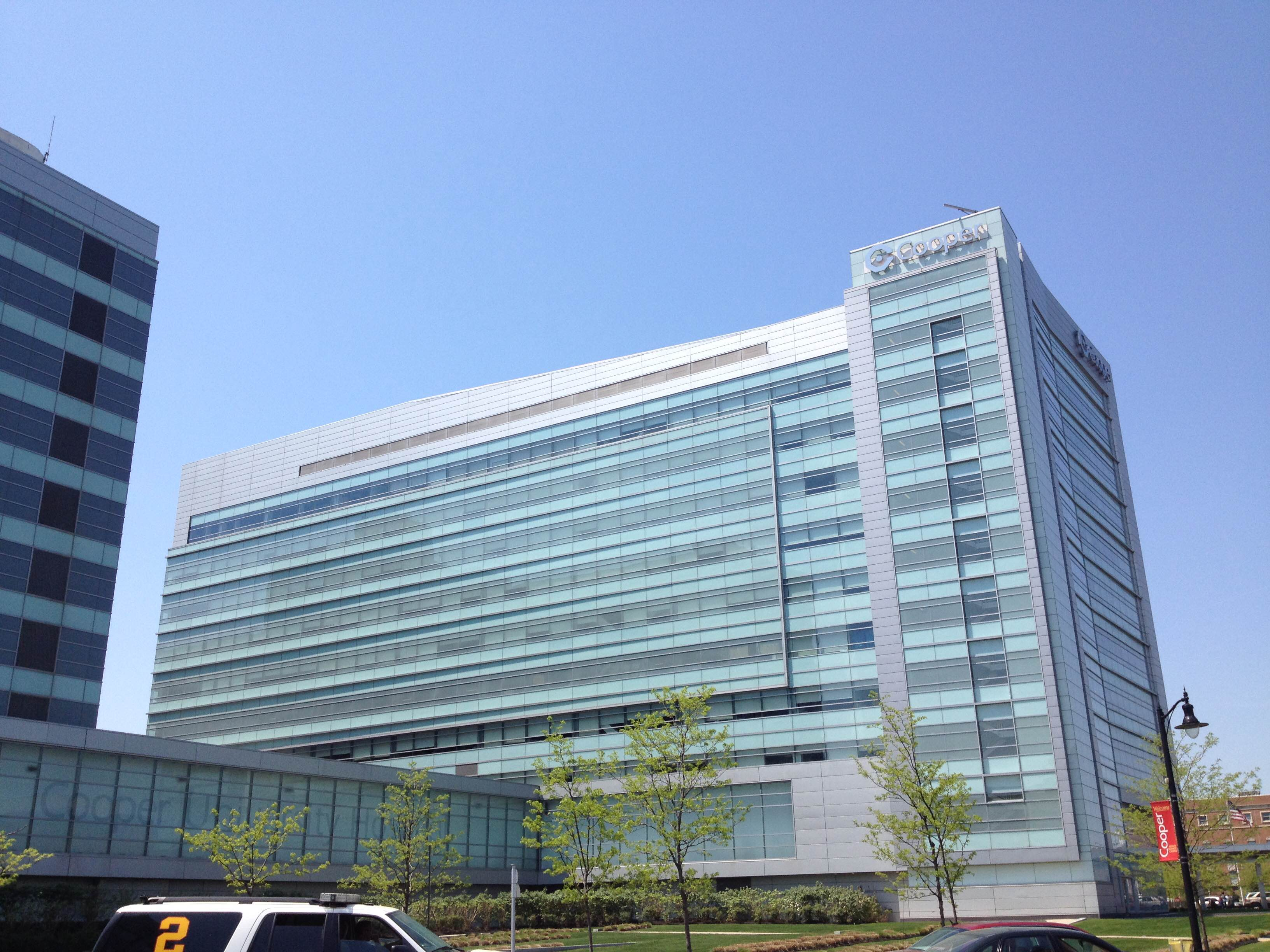 New Patient Pavilion